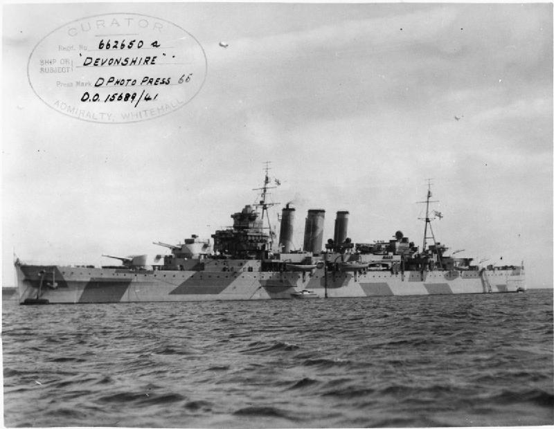 HMS Devonshire Secured to a buoy.